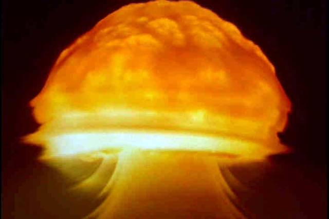 Operation Dominic - Chama shot.